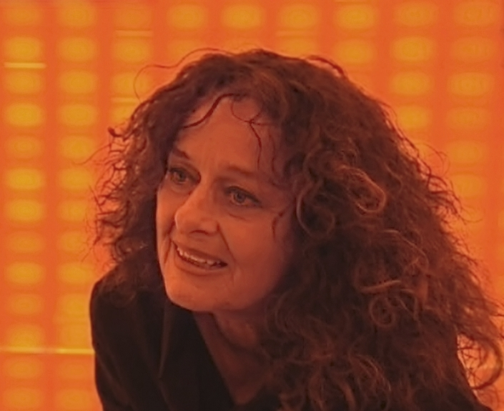 Ingeborg Luescher in her "amber room"